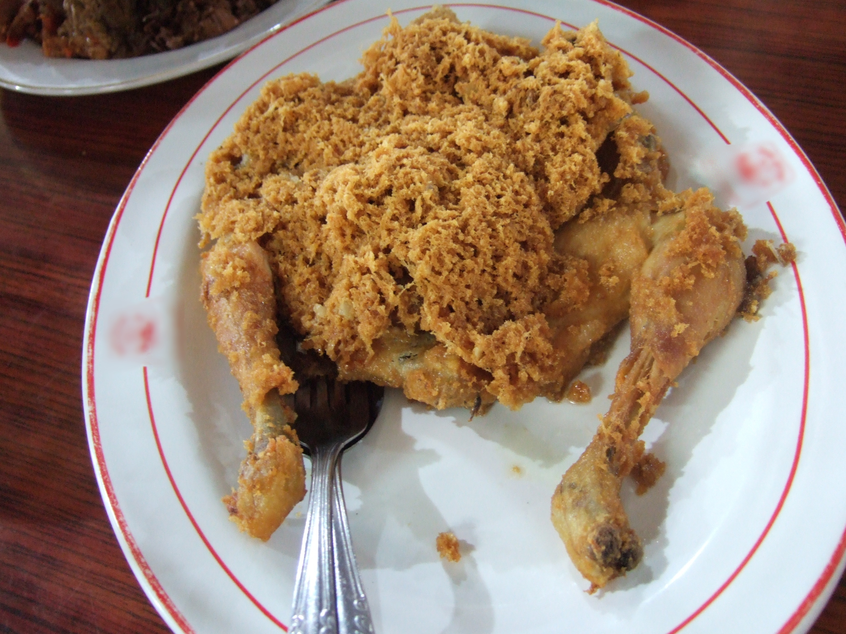 Ayam goreng Ny. Suharti, Jakarta